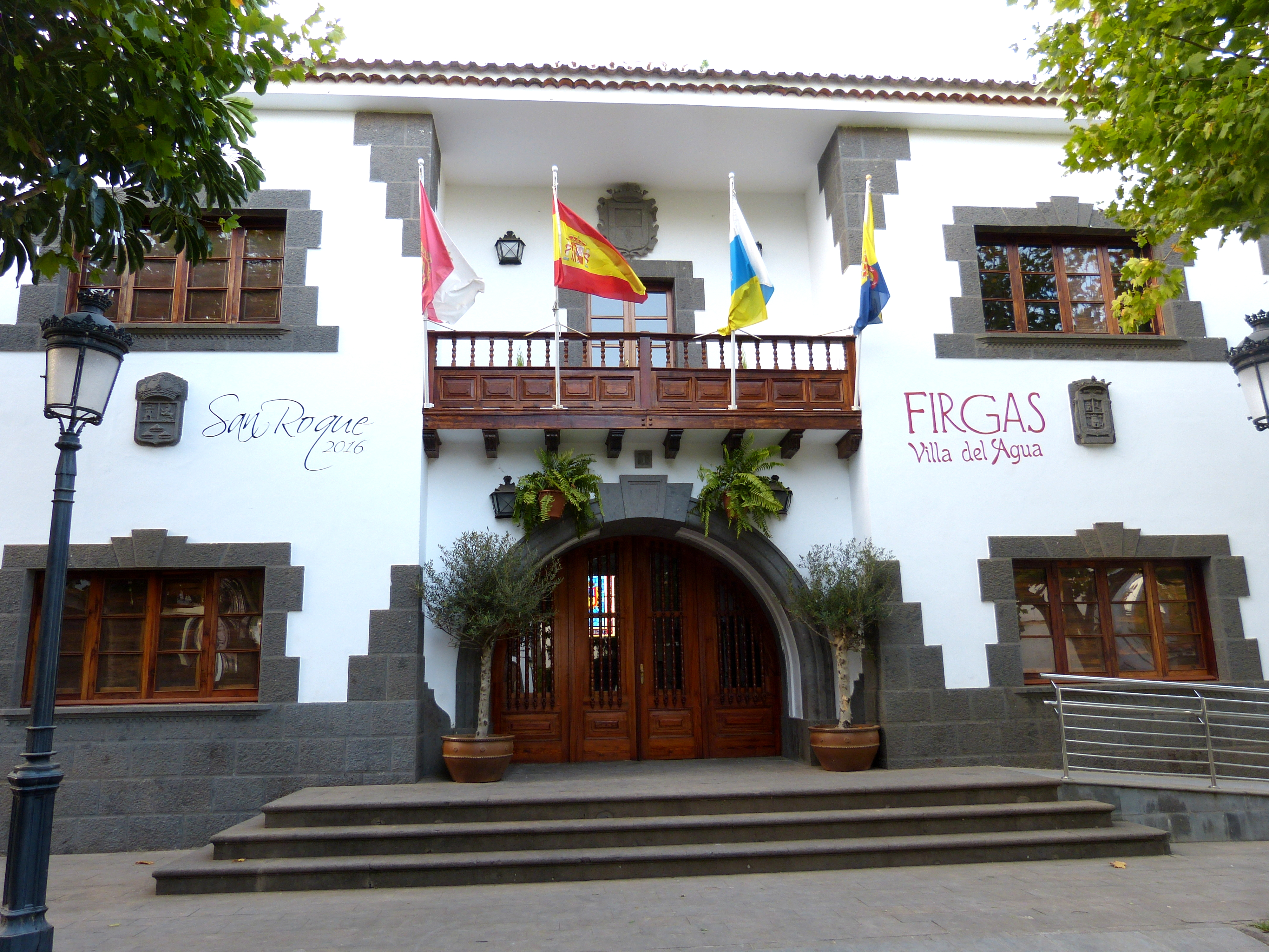 Firgas ( Gran Canaria ). Cultural centre "Villa del Agua".